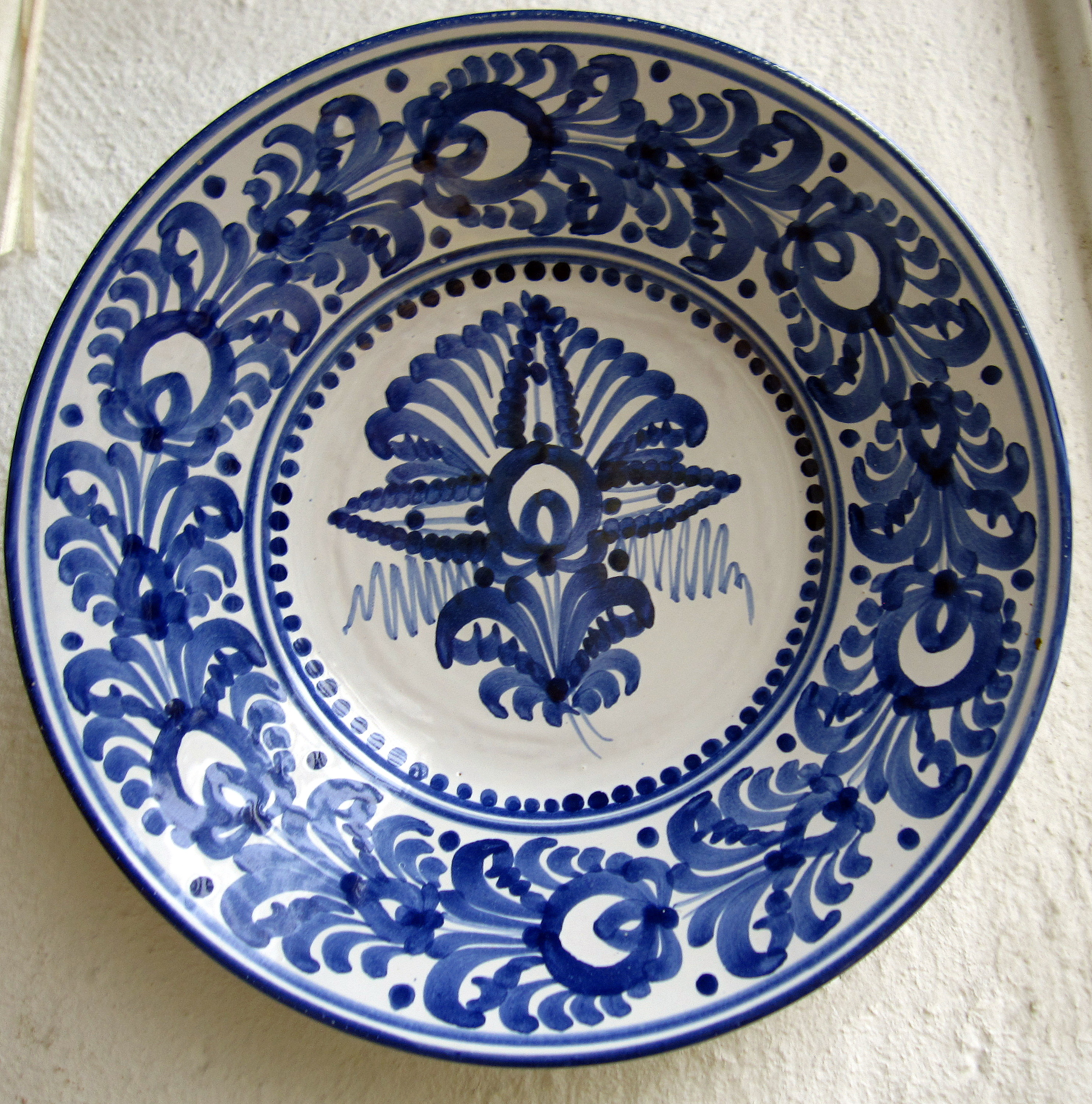 The plate - ceramics from region Modra, Slovak republic, traditional design 48°19′54″S 17°18′32″V